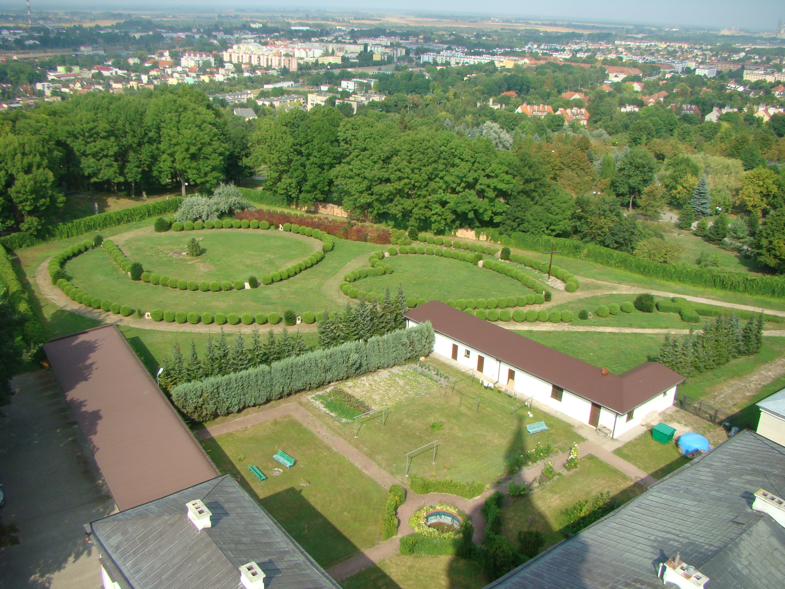 Rosarium garden in Chełm, Poland.